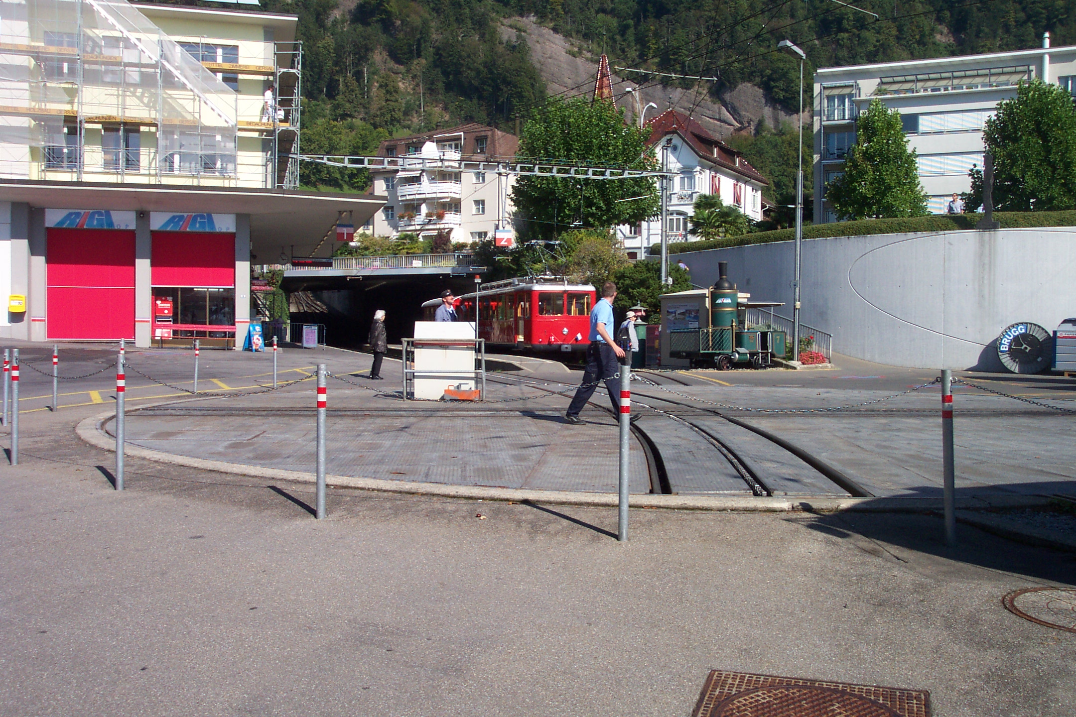 The Vitznau terminus of the Vitznau-Rigi Bahn in Switzerland. For more information, see the Wikipedia article Rigi-Bahnen.